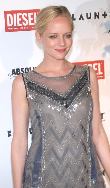 Actor Marley Shelton at FLAUNT Magazine's 9th Anniversary Bash and Holiday Toy Drive